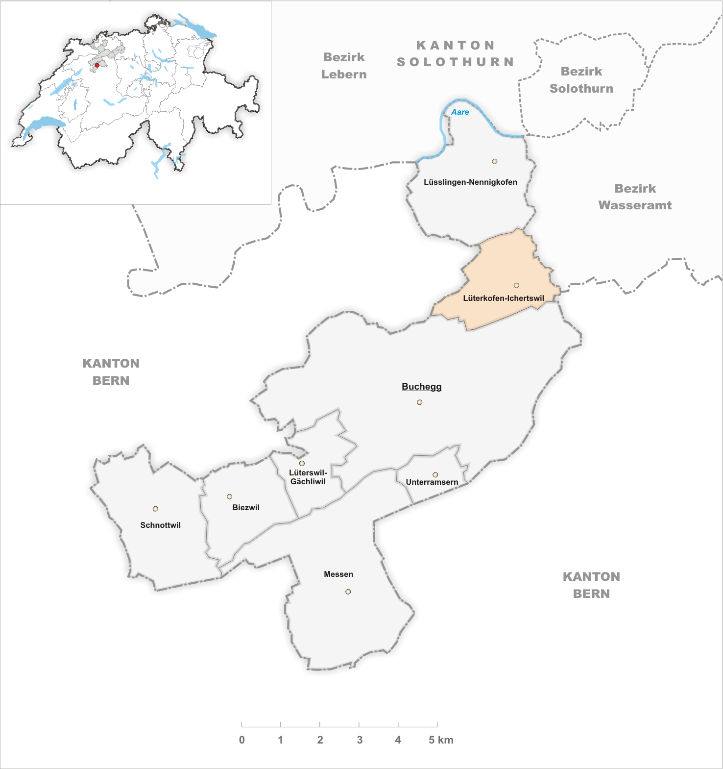 Municipality Lüterkofen-Ichertswil